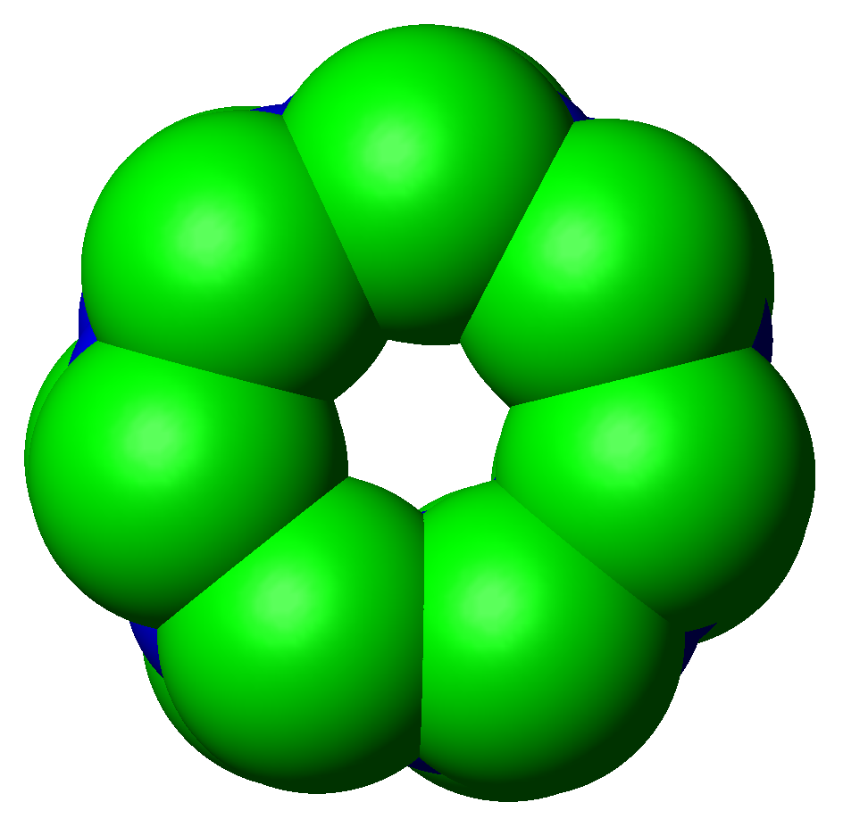 Topview of the 20S yeast (S. cerevisiae) proteasome (PDB accession code 1G0U). The alpha subunits are shown as green spheres centered on the CB atom of Leu137, which is only 3.44 Å from the position of the true centroid; their radius is 25.0 Å, which is twice the longest principal axis of the equivalent ellipsoid. (For comparison, the radius of gyration is 18.0 Å.) The barely visible beta subunits are shown as blue spheres centered on the CA atom of residue 44, which is only 3.2 Å from the position of the true centroid; their radius is 21.0 Å, which is twice the longest principal axis of the equivalent ellipsoid. (For comparison, the radius of gyration is 15.2 Å.) This figure was made by me on 12 December 2006 using MOLMOL and my own GPL software, and is released under the GFDL, especially to Opabinia regalis. ;)